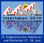 25. Eidg Tambouren- und Pfeiferfest in Interlaken 2010, Schweiz